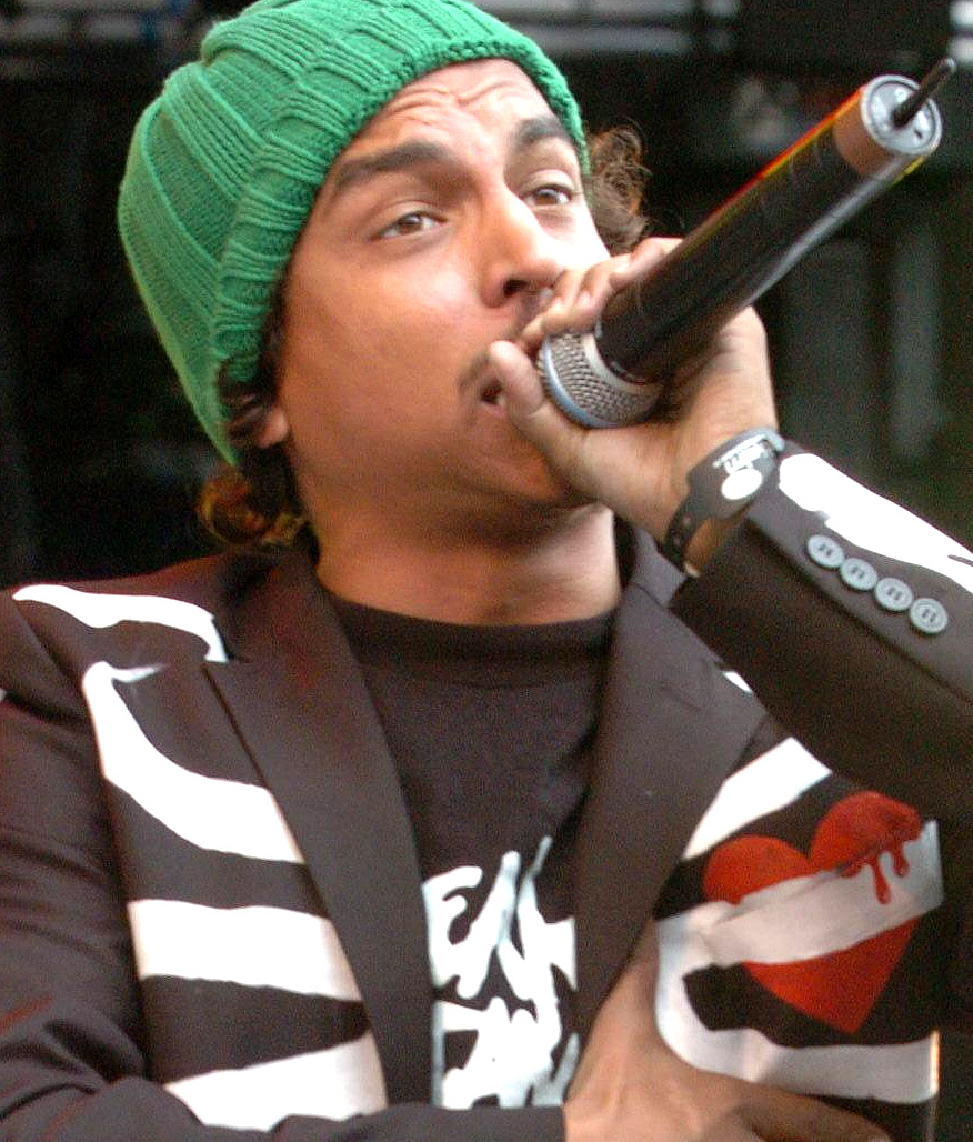 Crop of File:Timbuktu.jpg, also sharpened and hightened contrast